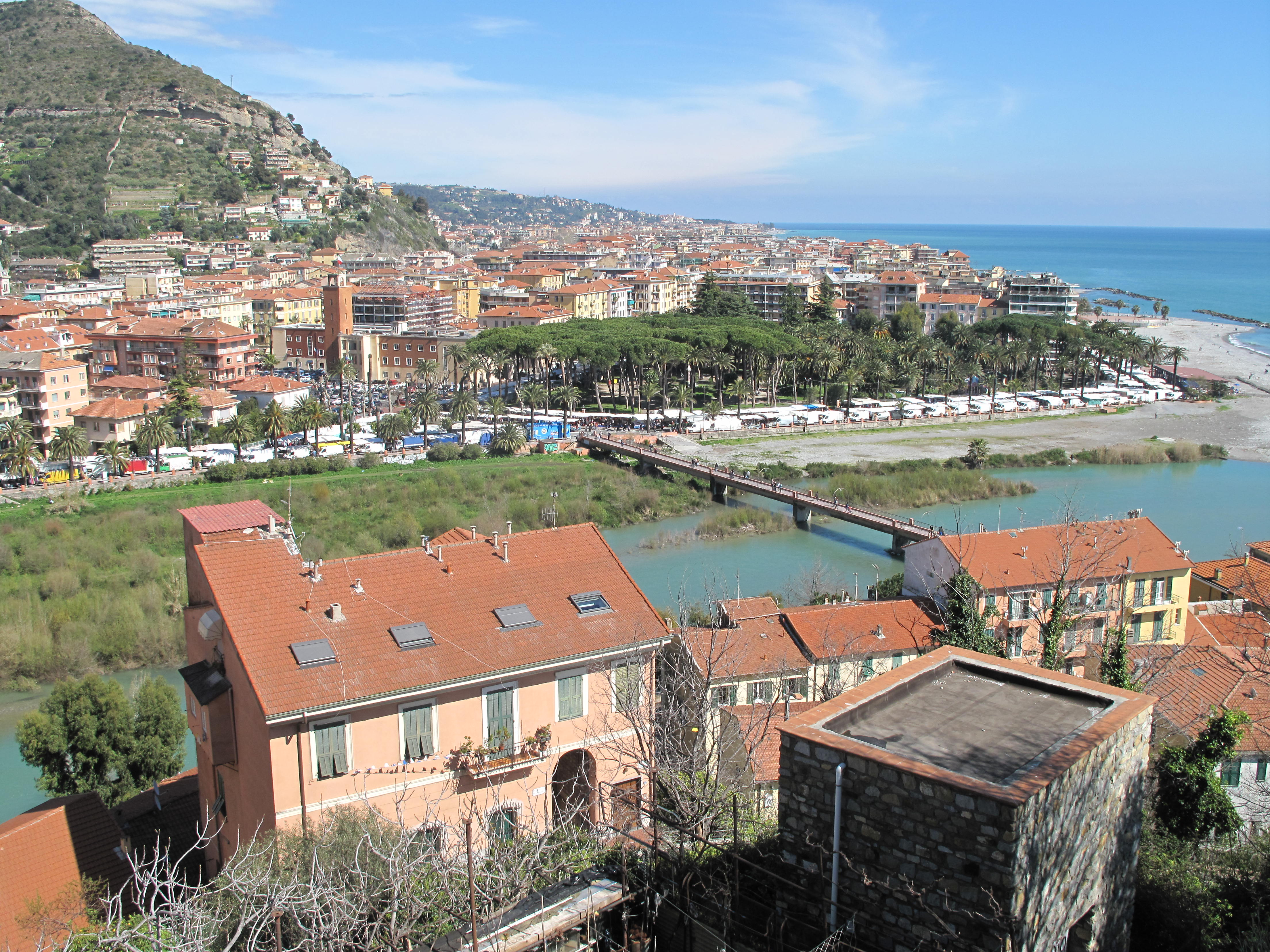 The new town of Ventimiglia (Liguria, Italy), seen from the old town.